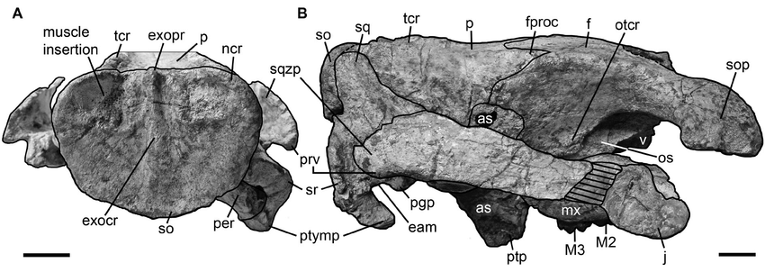 Fig. 4. Cranium of Lentiarenium cristolii (Fitzinger, 1842) (OLL 1926/394). A. In caudal view. B. In right lateral view. Shaded area indicates either missing or reconstructed part. Scale bars = 2 cm. as: alisphenoid; eam: external auditory meatus; exocr: external occipital crest; exopr: external occipital protuberance; f: frontal; fproc: frontal process; j: jugal; M2–3: upper molar 2–3; mx: maxilla; ncr: nuchal crest; os: orbitosphenoid; p: parietal; per: periotic; pgp: postglenoid process; prv: processus retroversus; ptp: pterygoid process; ptymp: posttympanic process; so: supraoccipital; sop: supraorbital process; sq: squamosal; sqzp: zygomatic process of squamosal; sr: sigmoid ridge; tcr: temporal crest; v: vomer.